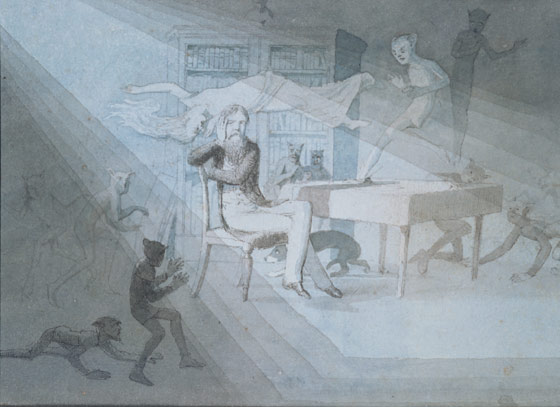 Charles Altamont Doyle (1832-93) 'Meditation, Self Portrait' 1885-93 Watercolour V&A Museum no. P.12-1981 This watercolour comes from one of the sketchbooks used by the artist during his stay in the Royal Montrose Lunatic Asylum in Scotland. His son, the writer Sir Arthur Conan Doyle, organised an exhibition of the artist's work in London in 1924.